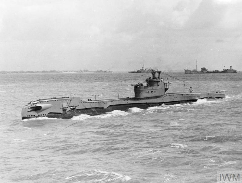 HMS/M Tireless, British Triton Class Submarine. May 1945, at sea.